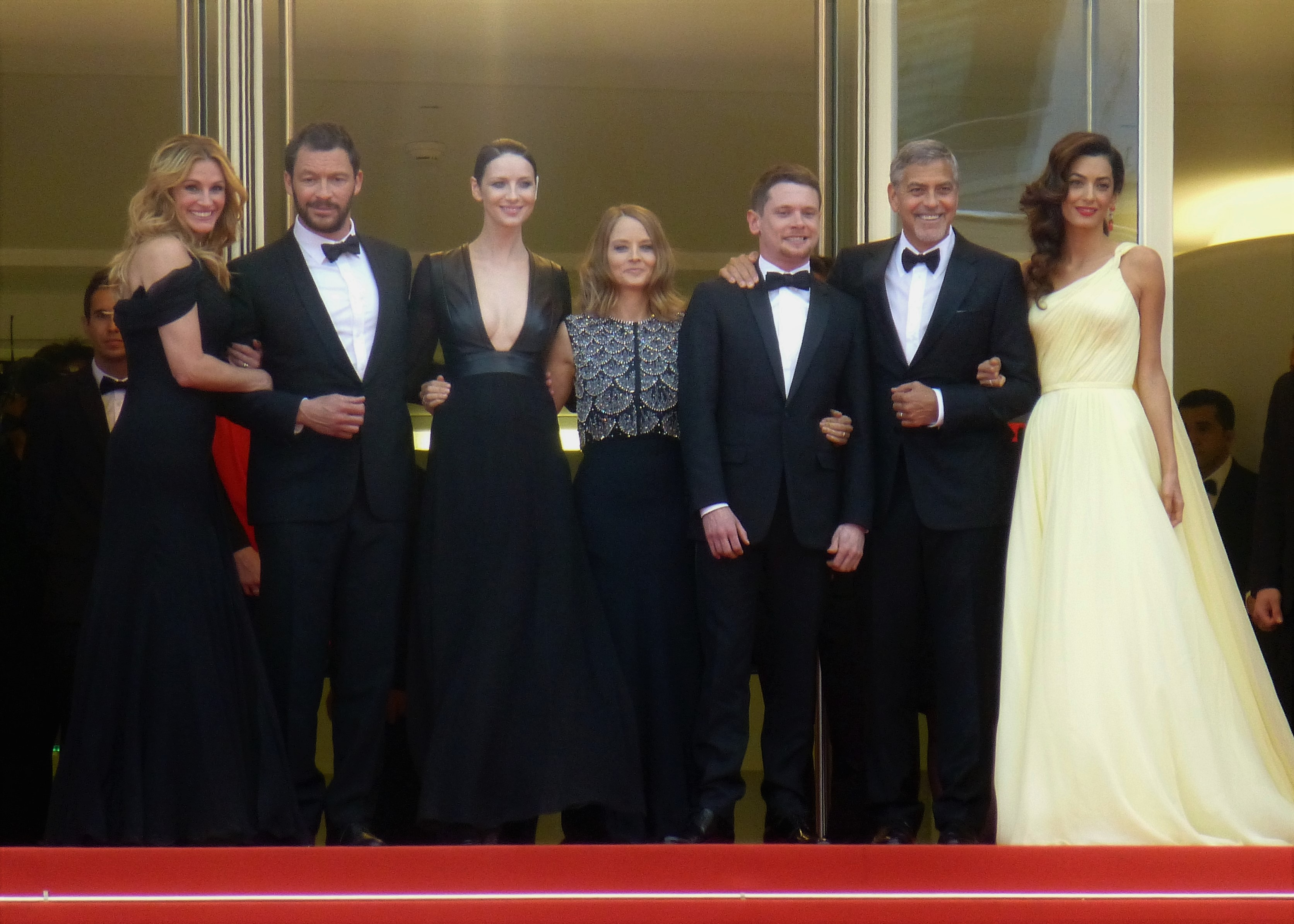 Julia Roberts, Dominic West, Caitriona Balfe, Jodie Foster, Jack O'Connell, George Clooney, Amal Clooney at the world premiere of Money Monster, 2016 Cannes Film Festival